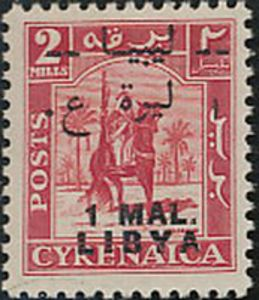 The first postage stamp of Libya, 1 MAL (Military Authority Lire), 1951, Series: Independence, Rider, Scott #102. A stamp of Cyrenaica, 1950, surcharged in black.